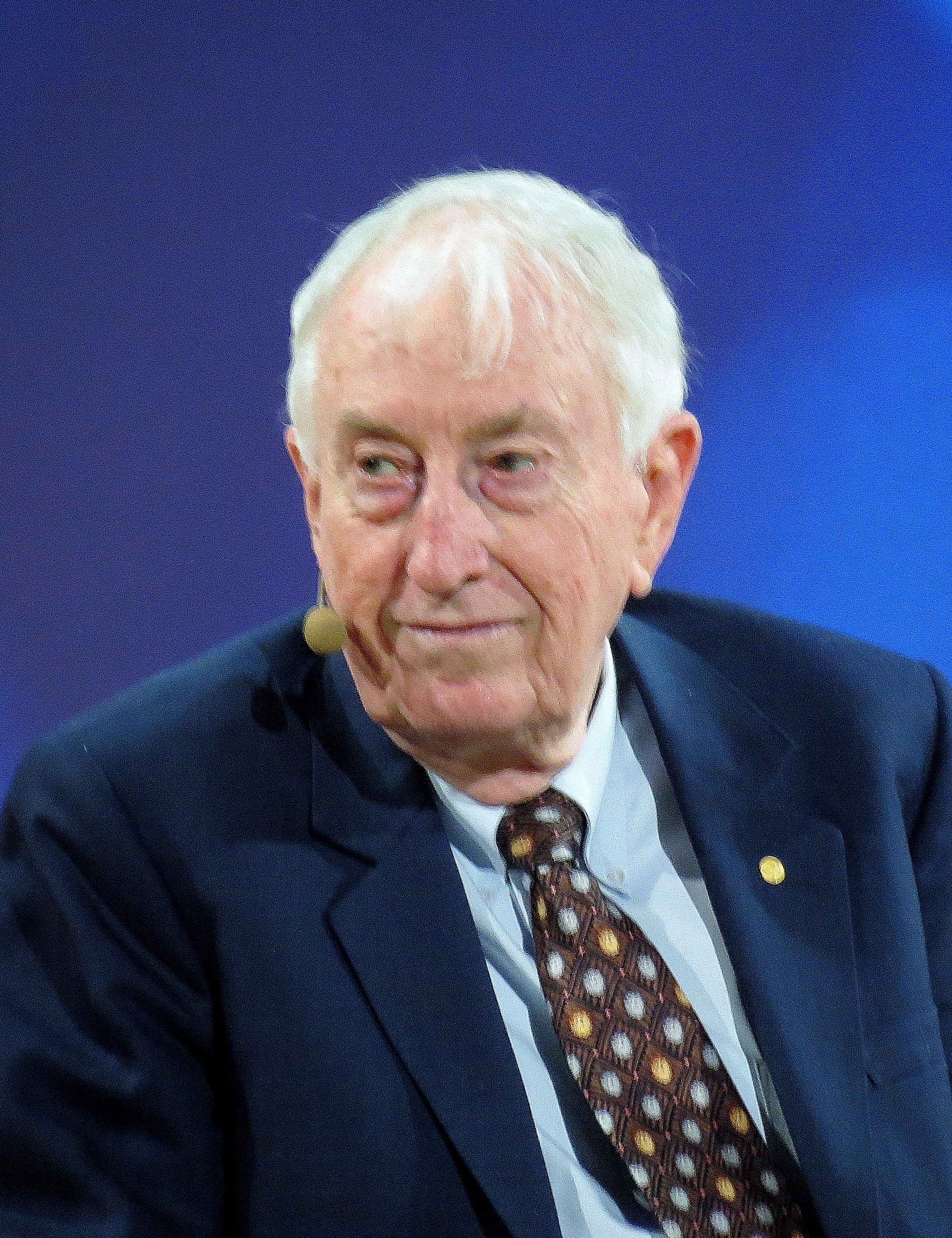 Professor Peter C. Doherty at the 2017 Nobel Week Dialogue in Göteborg, Sweden.